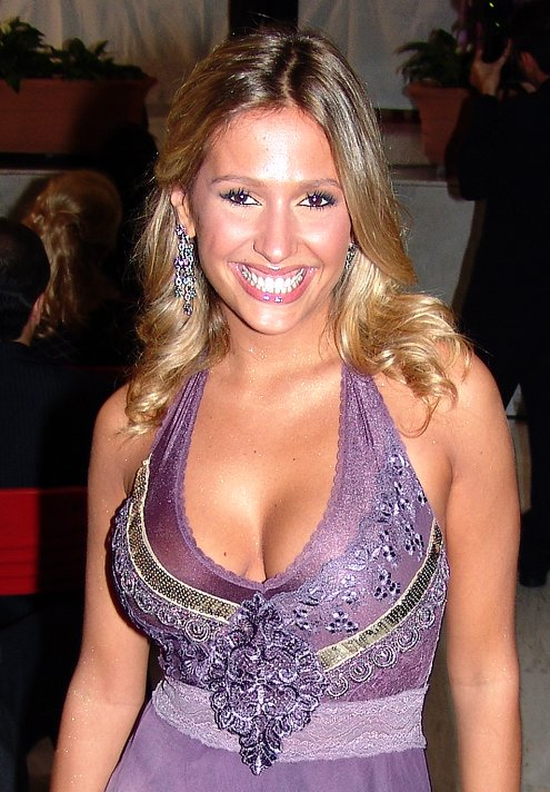 Brazilian actress Luísa Mell.